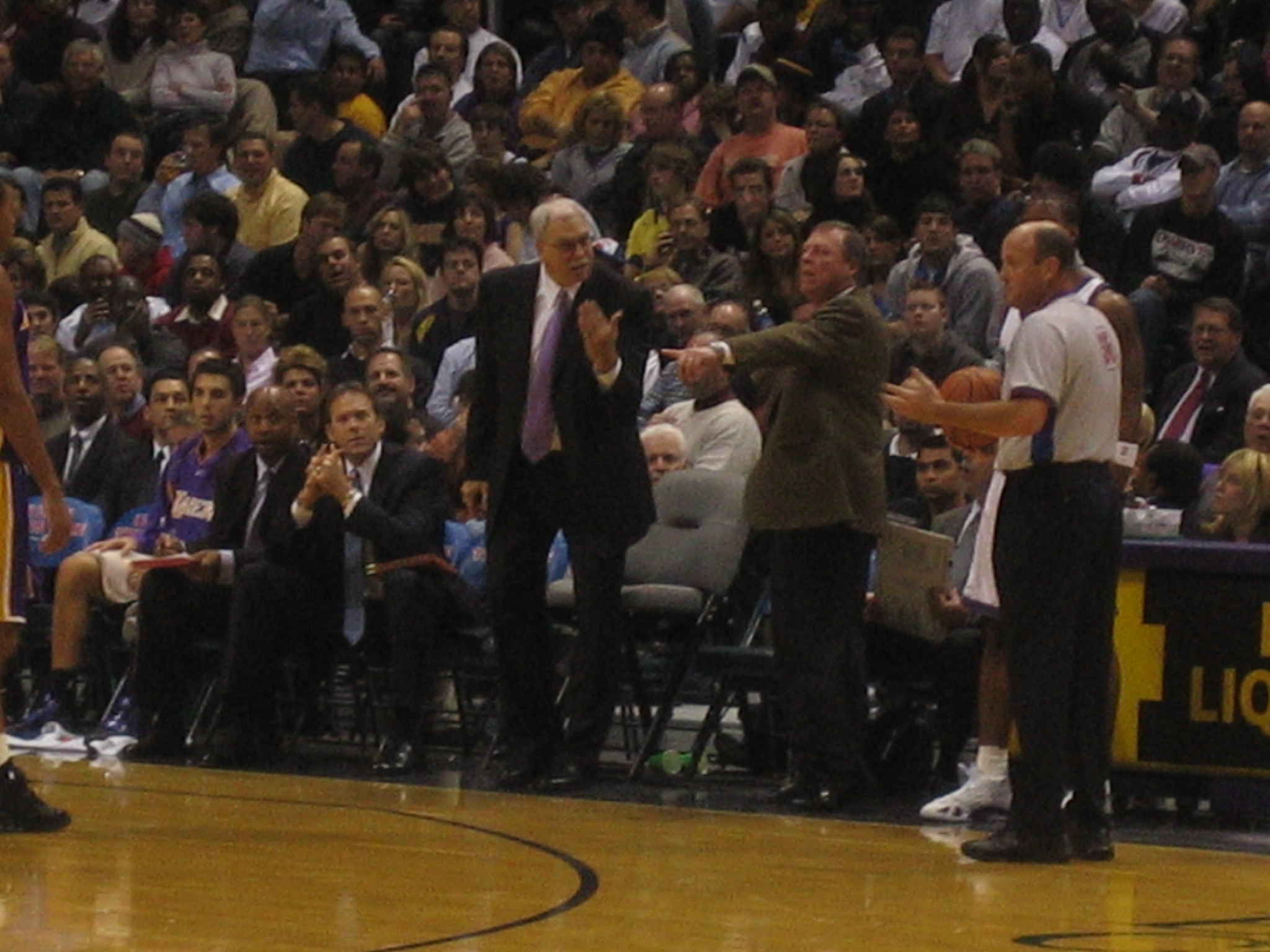 This is what Phil Jackson looks like when he is mad. After watching him struggle to walk out onto the court it dawned on me that I could soon be seeing "this is what Phil Jackson looks like when he has a heart attack". Thankfully I was spared.